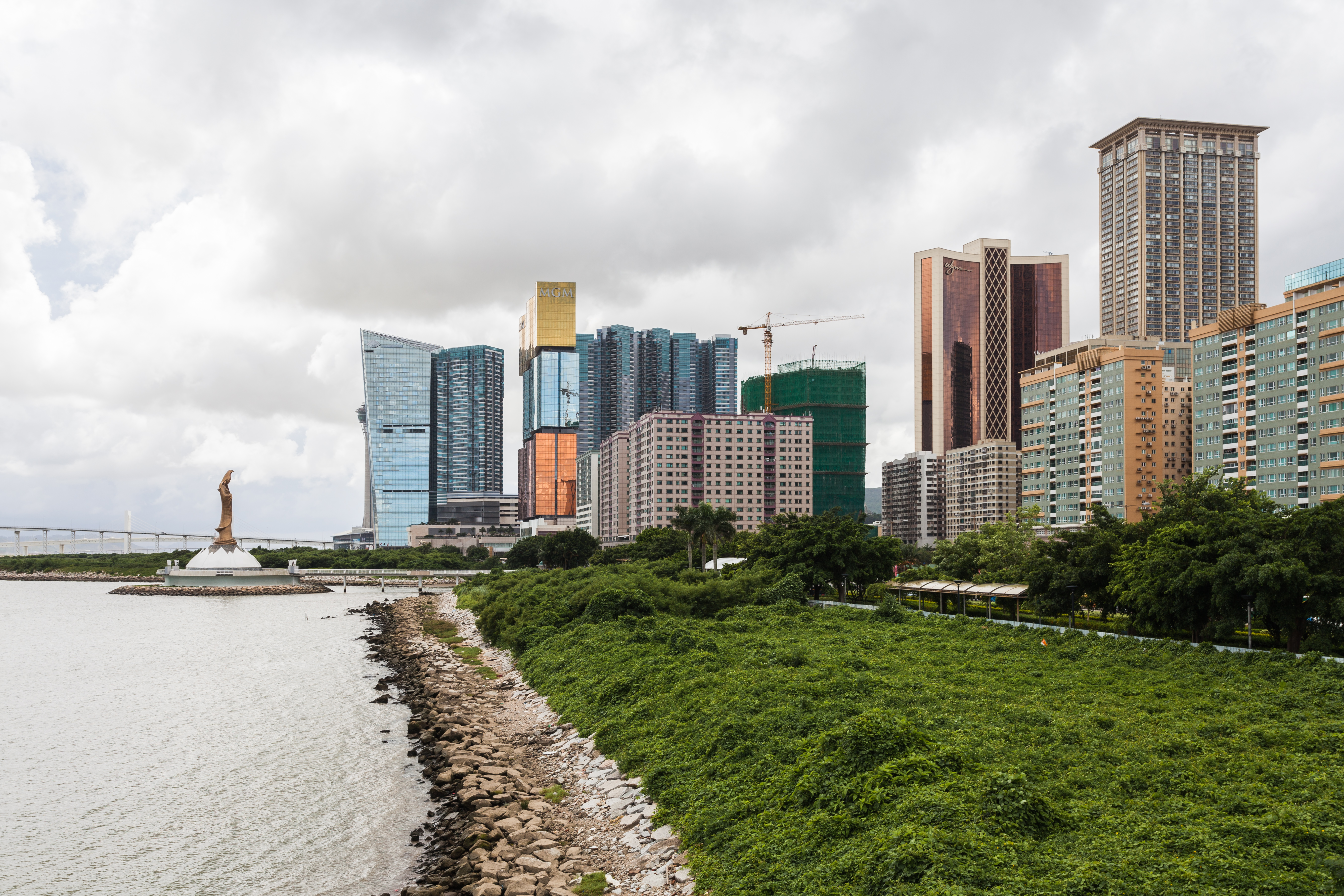 View of the casinos from Science Center, Macau